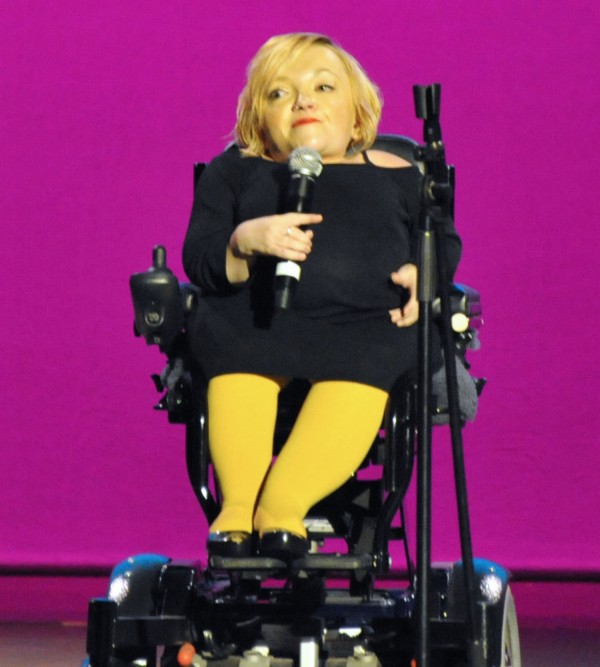 Stella Young performing at the Global Atheist Convention 2012 in Melbourne, Australia